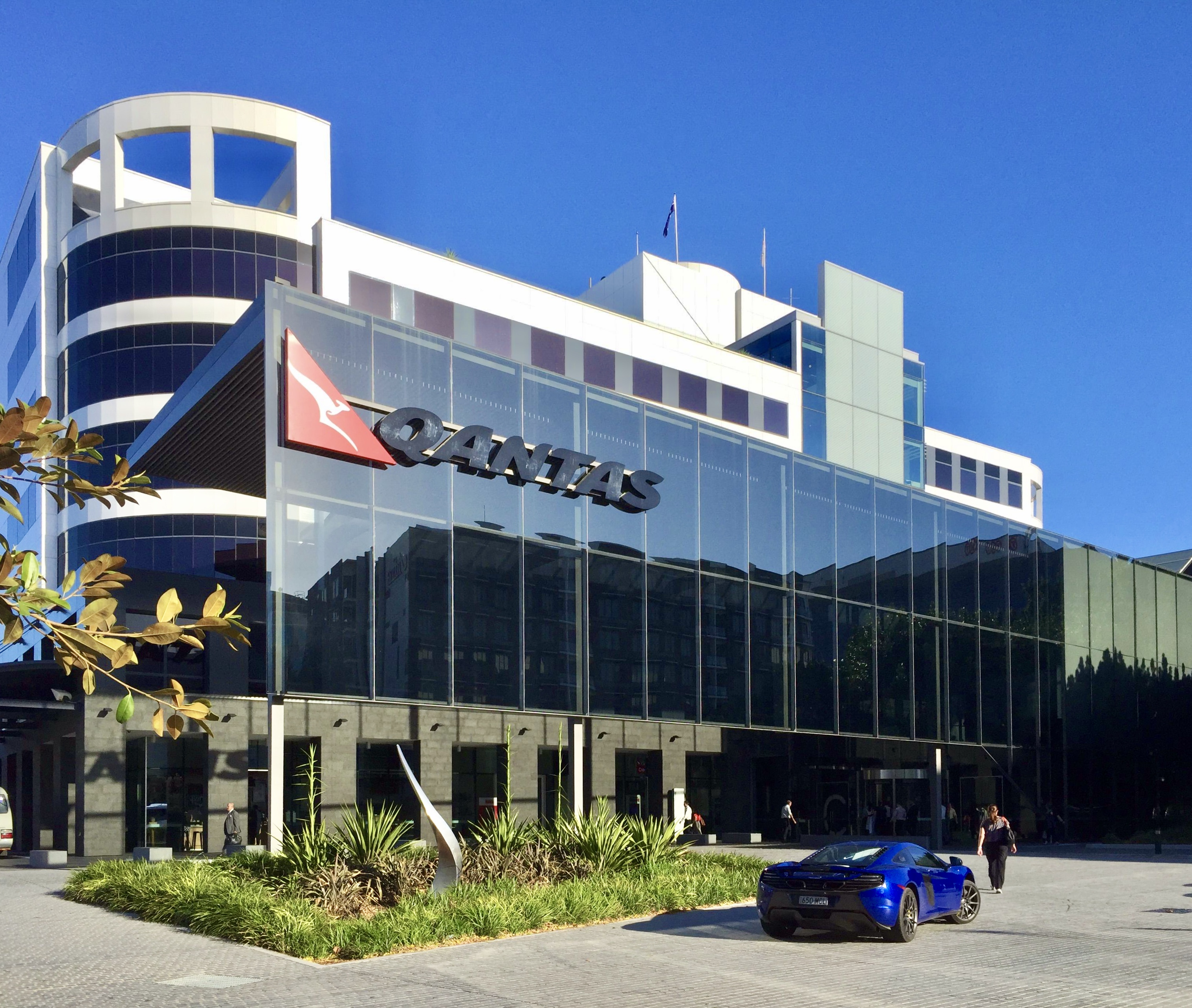 Qantas Campus Mascot NSW